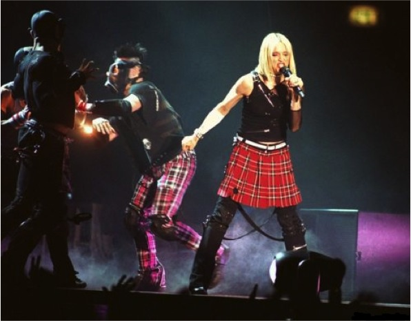 Madonna 02837291 29281 Milan